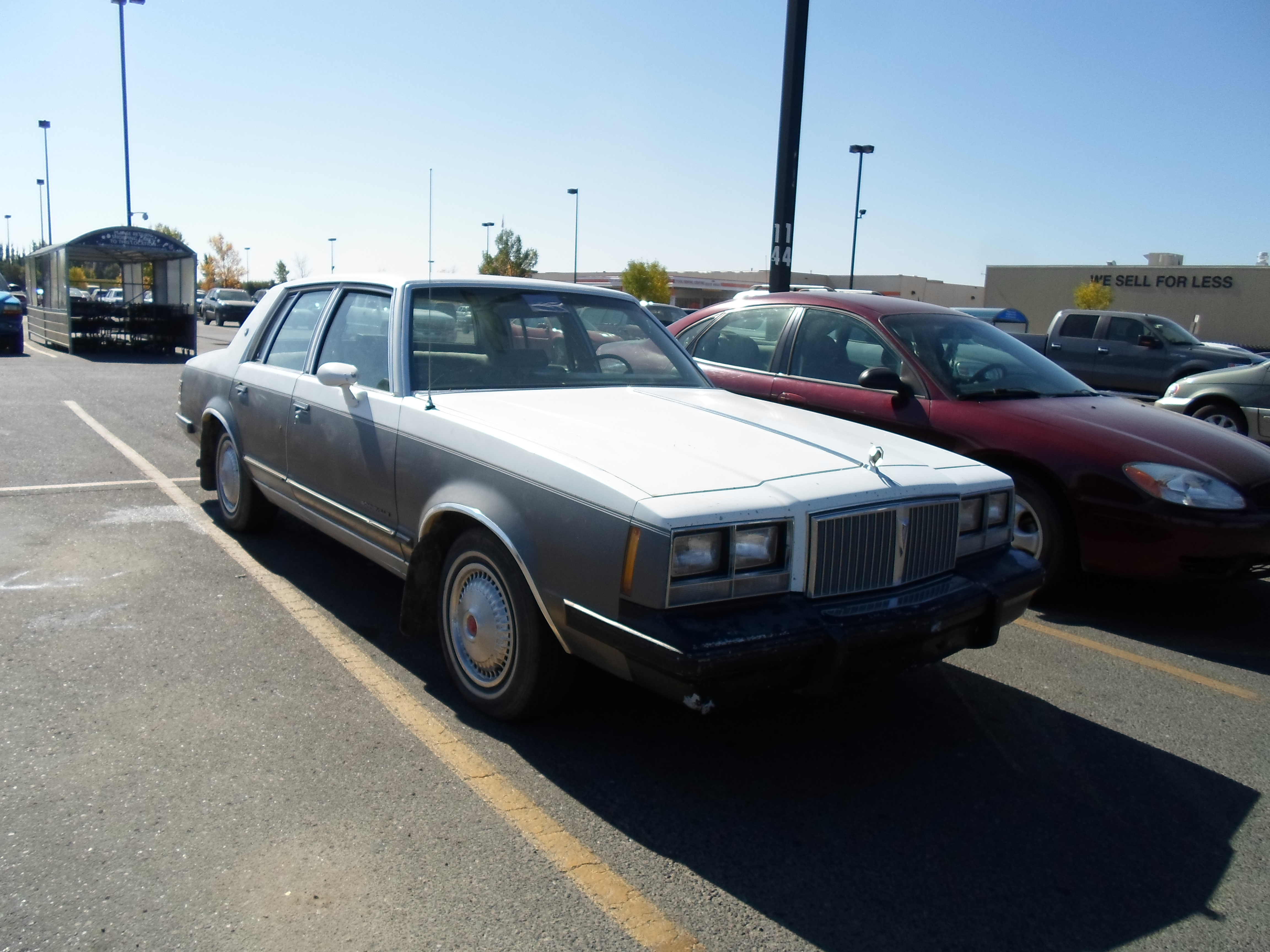 Getting rare to see a Pontiac Bonneville of this generation. Two tone paint too but I doubt it started life that way. This was the first mid size Bonneville and the first Bonneville sold in Canada.